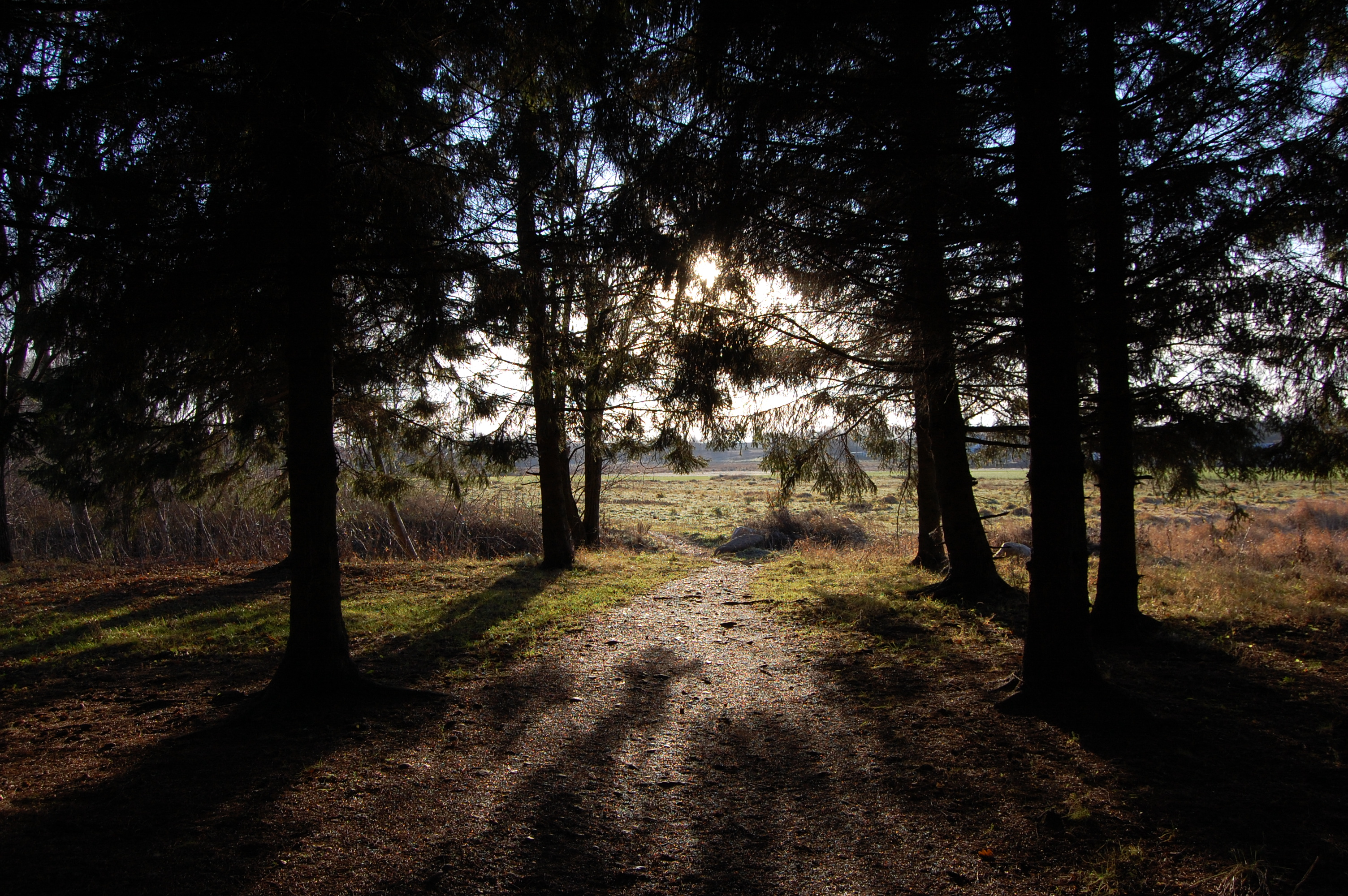 Jänese hiking trail